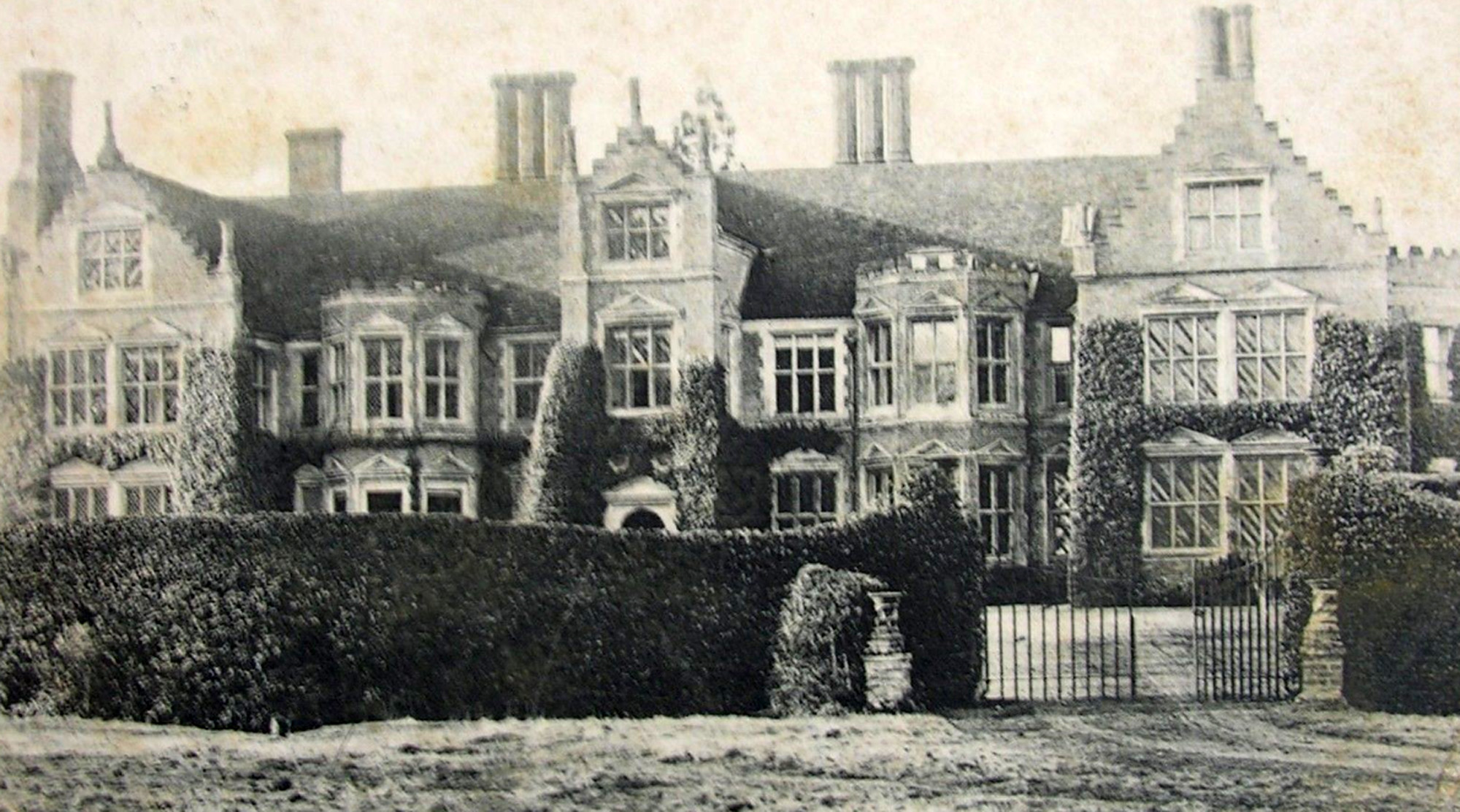 Haughley Park, Suffolk, 1905